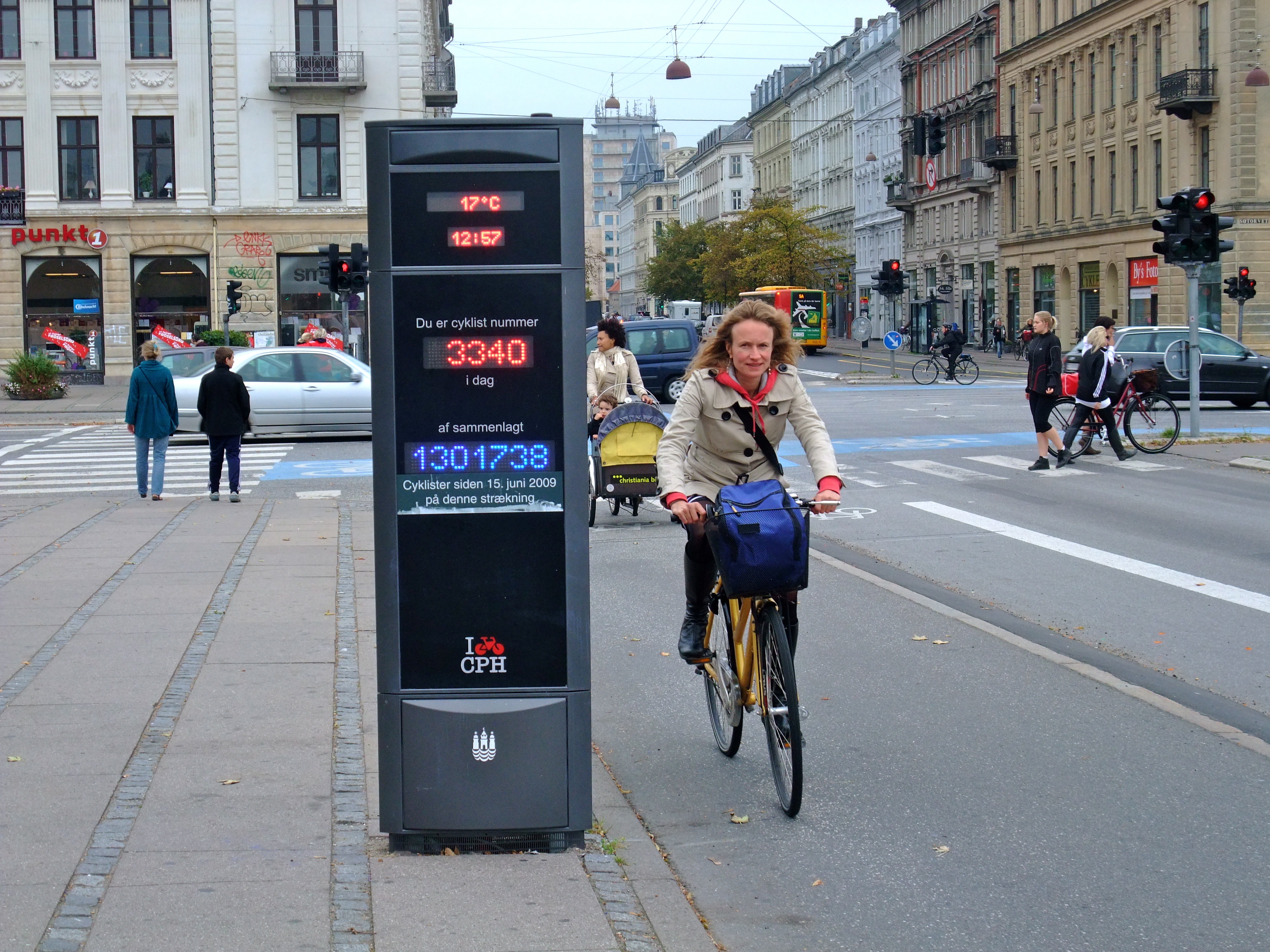 I really liked this idea. And there's certainly no shortage of bikes driving past this sign: 3,340 today, until 12.57pm.